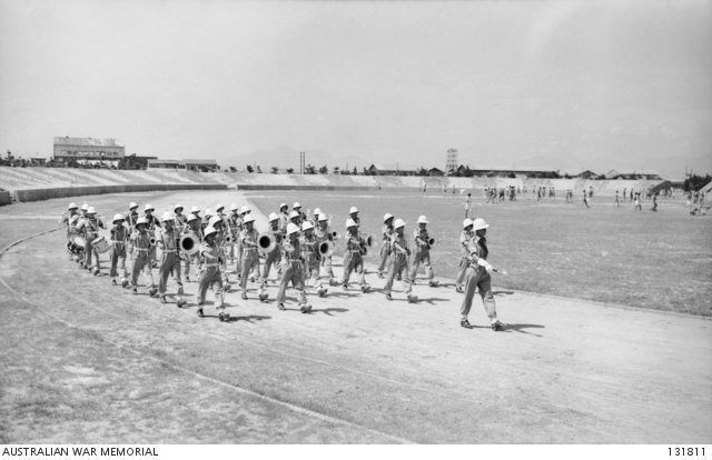 ON VJ DAY TO HONOUR THE MEMORY OF PRIVATE KEN PARKER FROM ADELAIDE, SA, THE BAND OF 66TH INFANTRY BATTALION BAND, WEARING WHITE HELMETS MARCH ON THE CANNON OVAL PRIOR TO THE COMMENCEMENT OF THE BATTALION SPORTS CARNIVAL.